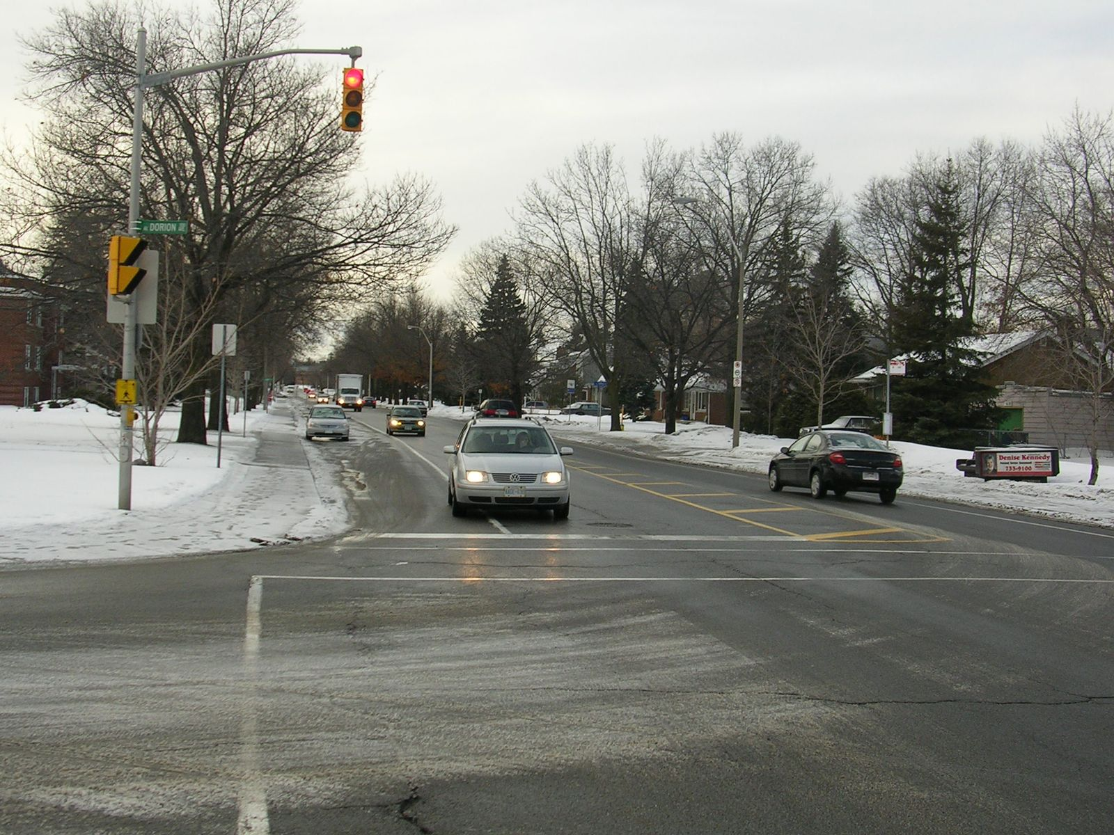 Alta Vista & Dorion